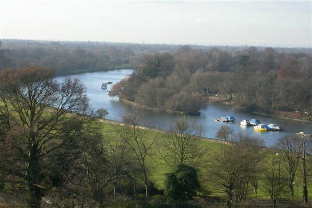 The Thames on Christmas Day. Close to noon, the view of the Thames from Richmond Hill.